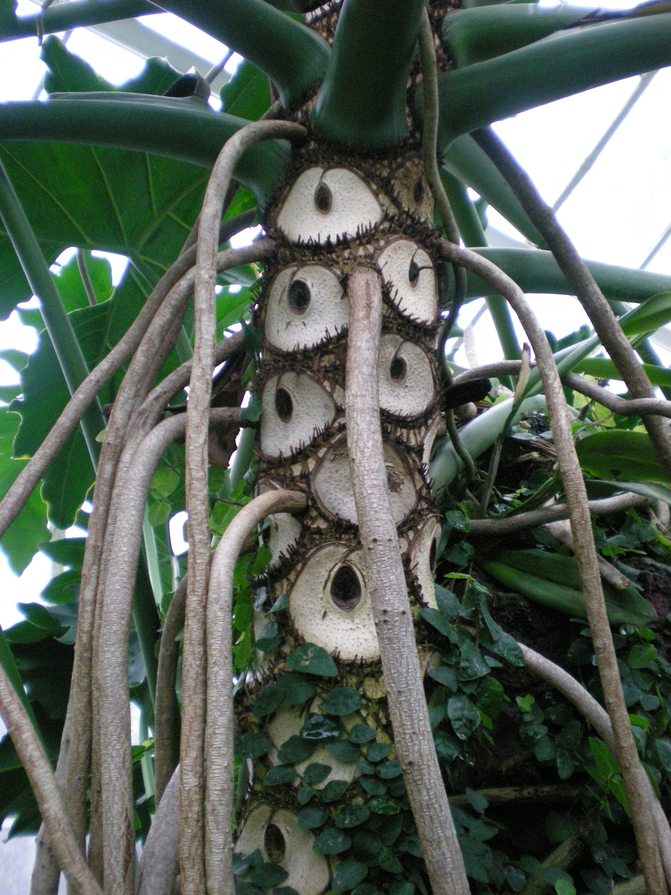 Philodendron bipinnatifidum, the Tree Philodendron